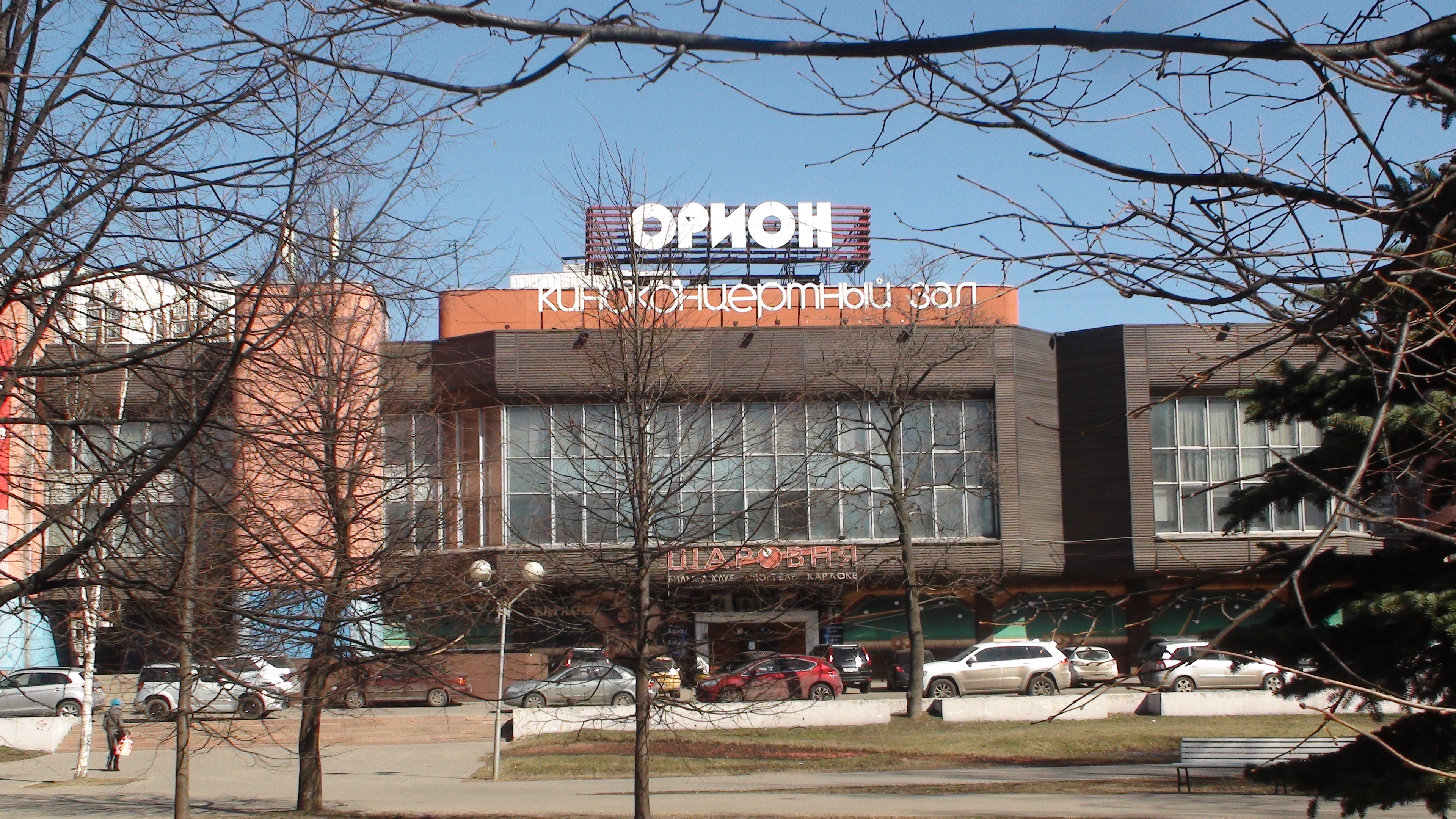 Культурный центр Орион Москва Бабушкинский район